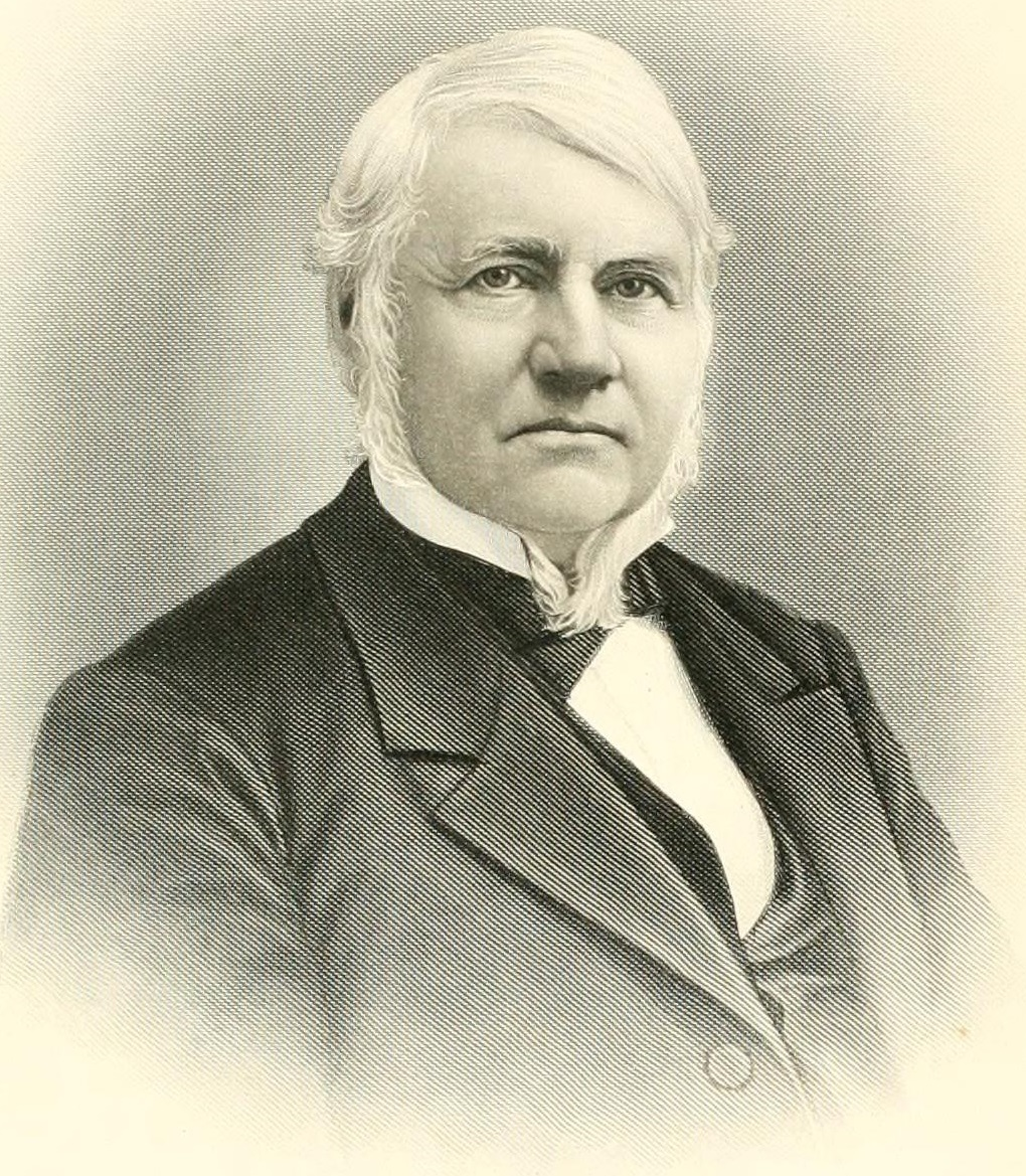 John Prout (Vermont Supreme Court Justice)